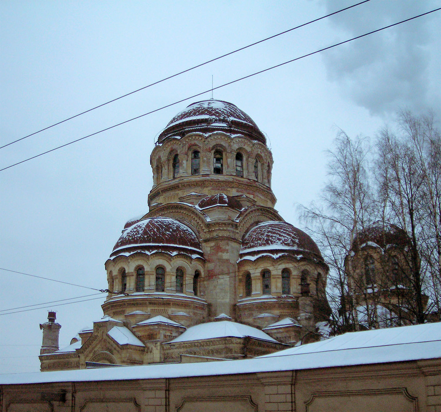 Church of Saving icon of Jesus's mother, St.Petersburg